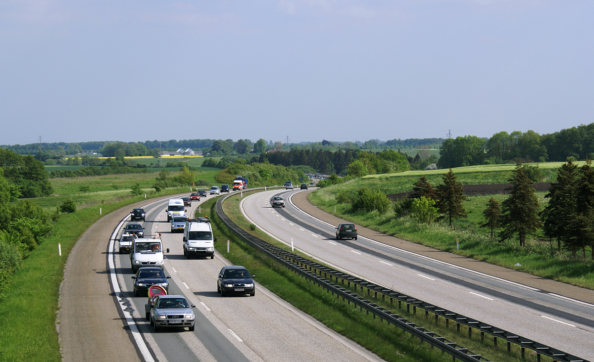 Motorway 21 (Holbækmotorvejen). Photo taken from bridge between Gevninge and Lejre southwest of Roskilde